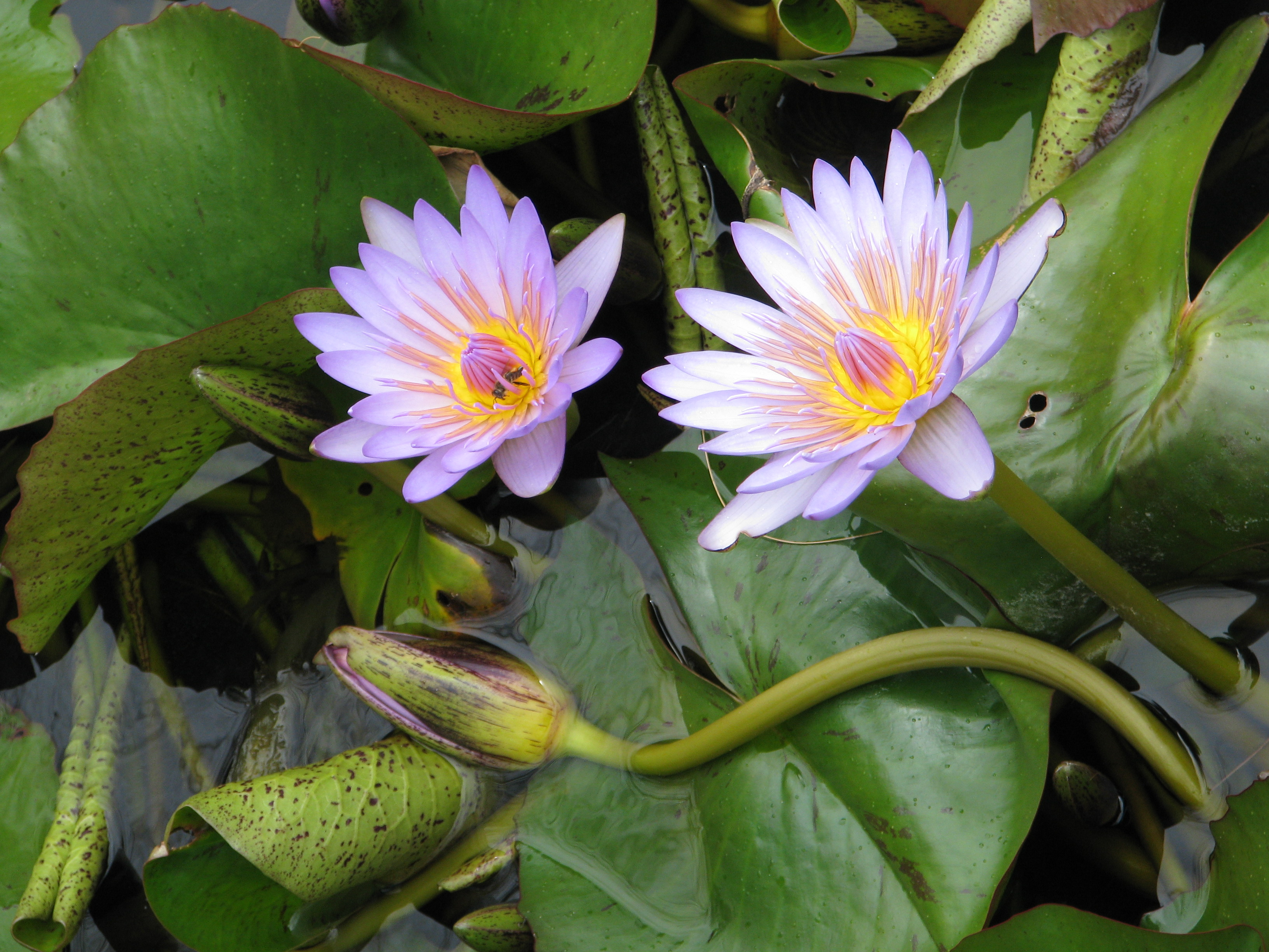 Nymphaea capensis, photographed in Tenerife.